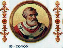 Pope Conon